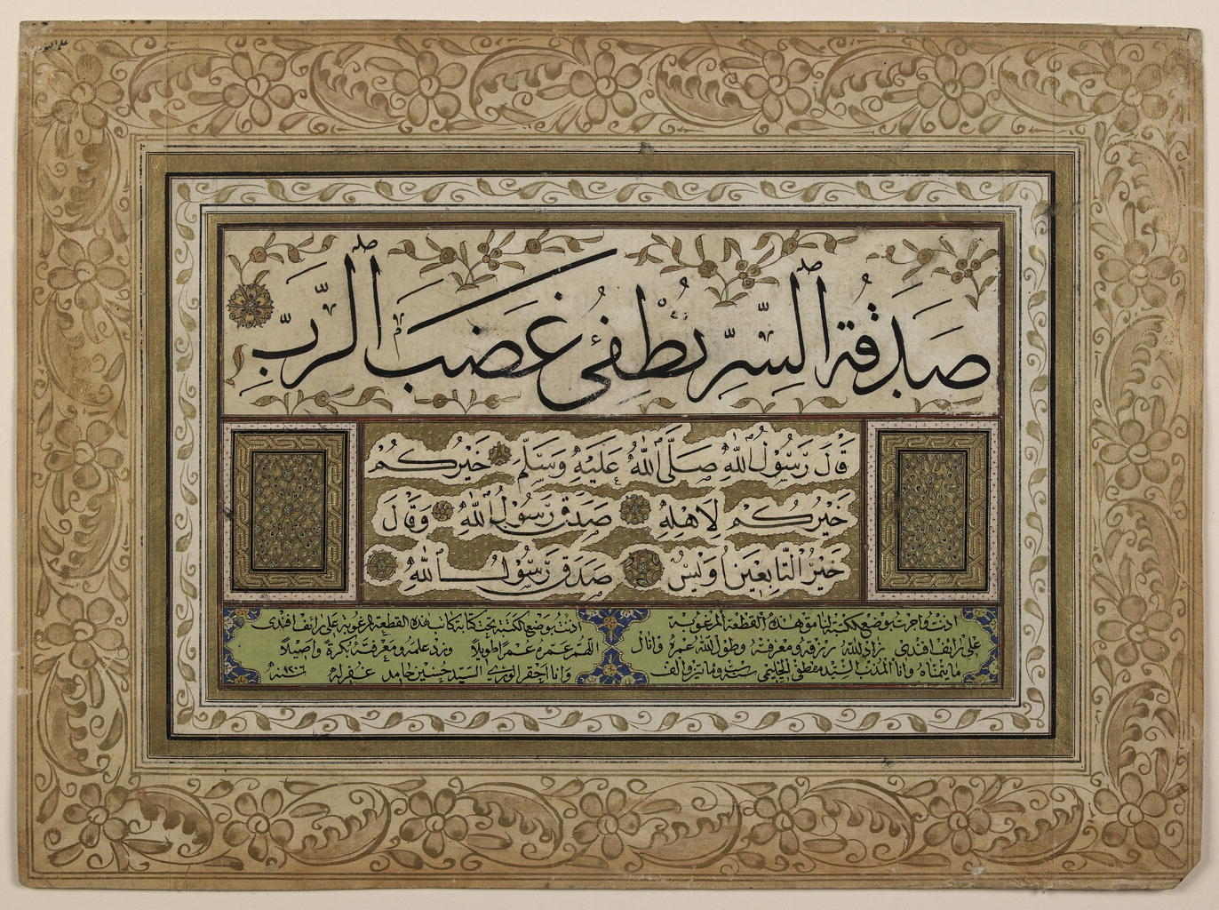 Example of an ijazah, or diploma of competency in Arabic calligraphy. Thuluth and nashk script. Written by 'Ali Ra'if Efendi in 1206/1791. 28 (w) x 21 (h) cm. The top and middle panels contain a Saying (Hadith) attributed to the Prophet Muhammad which reads: Secret charity quenches the wrath of the Lord. / The best of you is the best for his family. / The best of the followers is Uways.